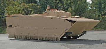 C variant of the Expeditionary Fighting Vehicle